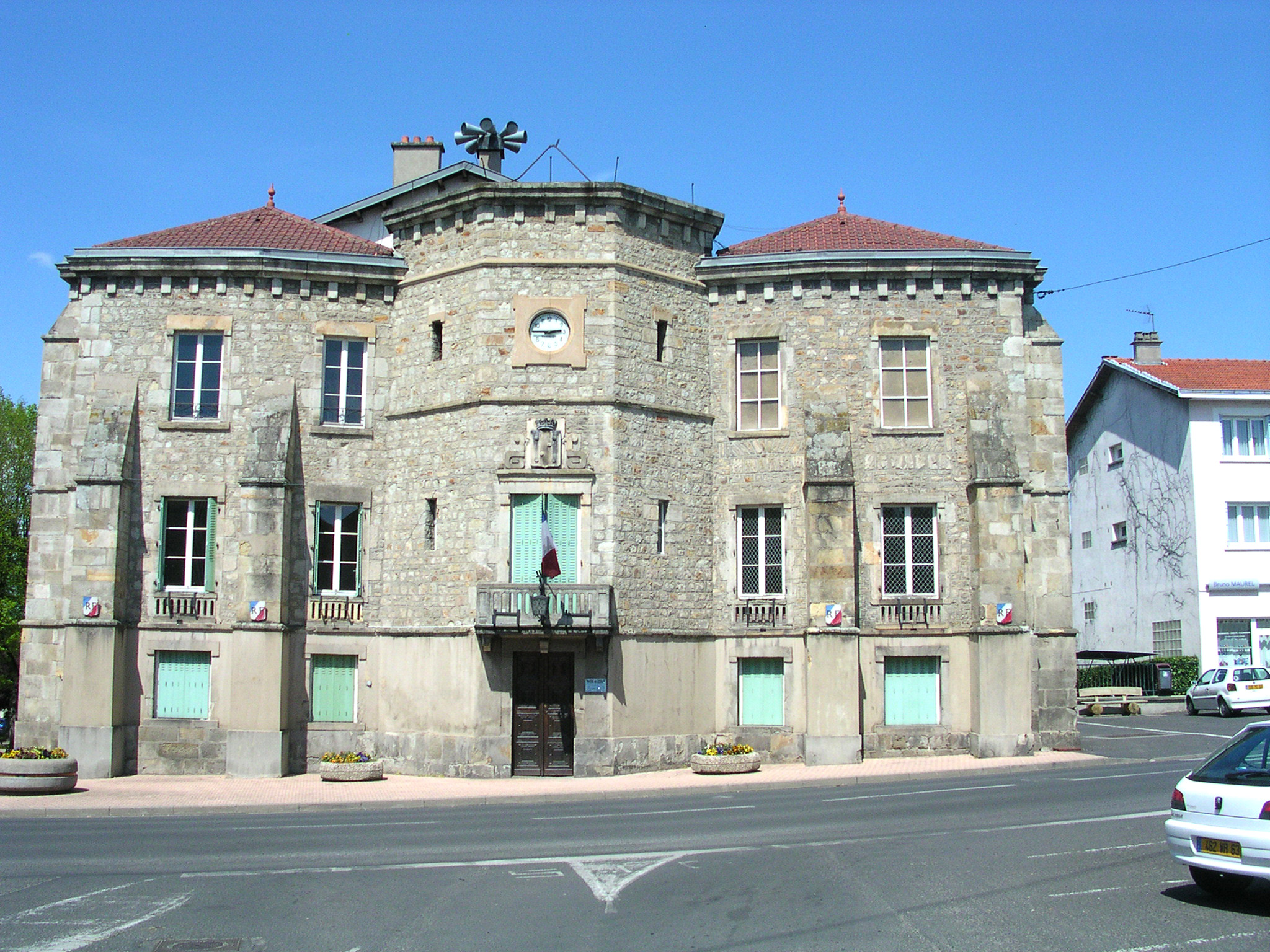 Lezoux (France) : the town hall (XIXth century).